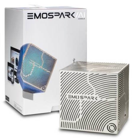 EmoSPARK